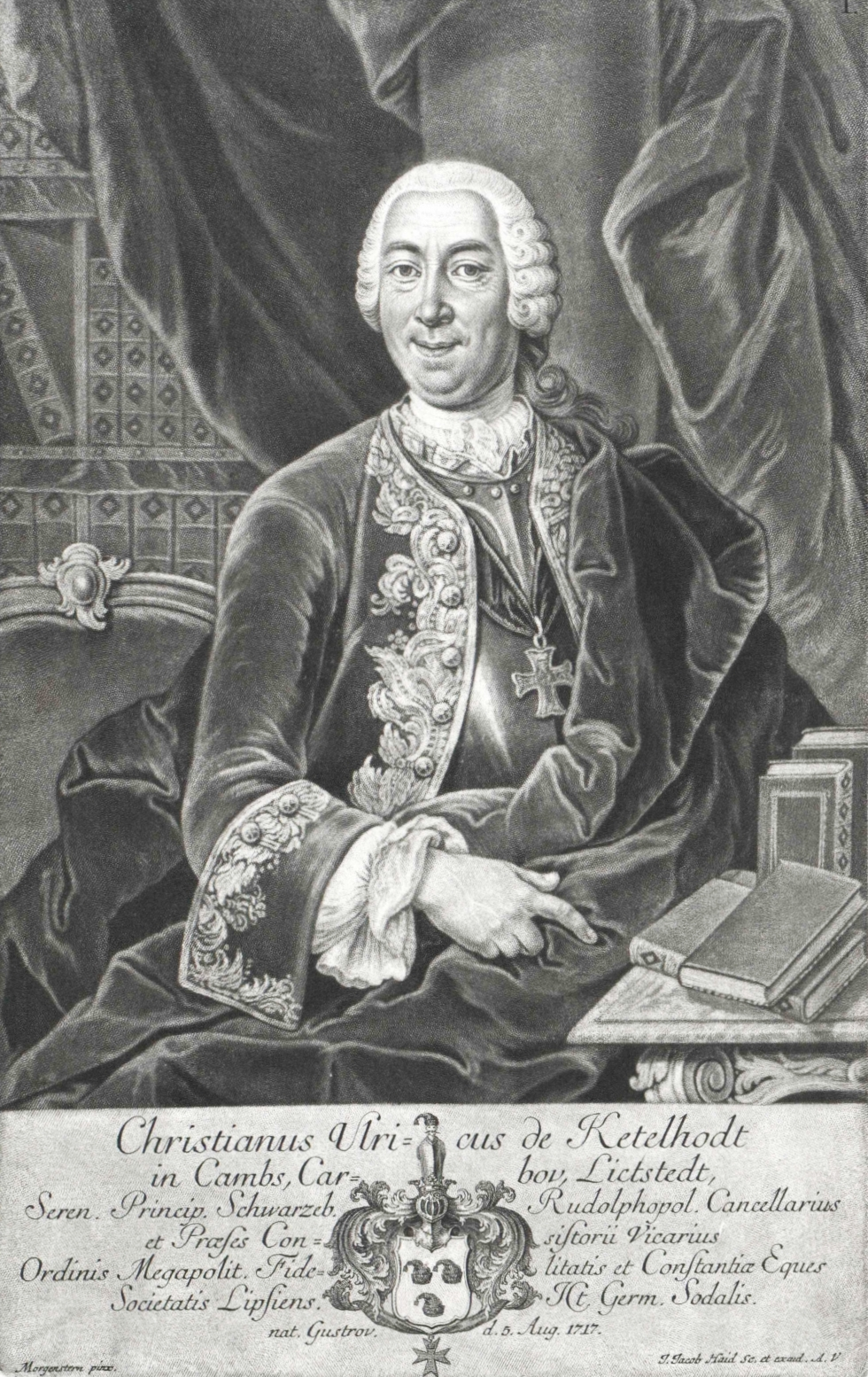 Portrait of Christian Ulrich von Ketelhodt (1701-1777), Kanzler in Rudolstadt[